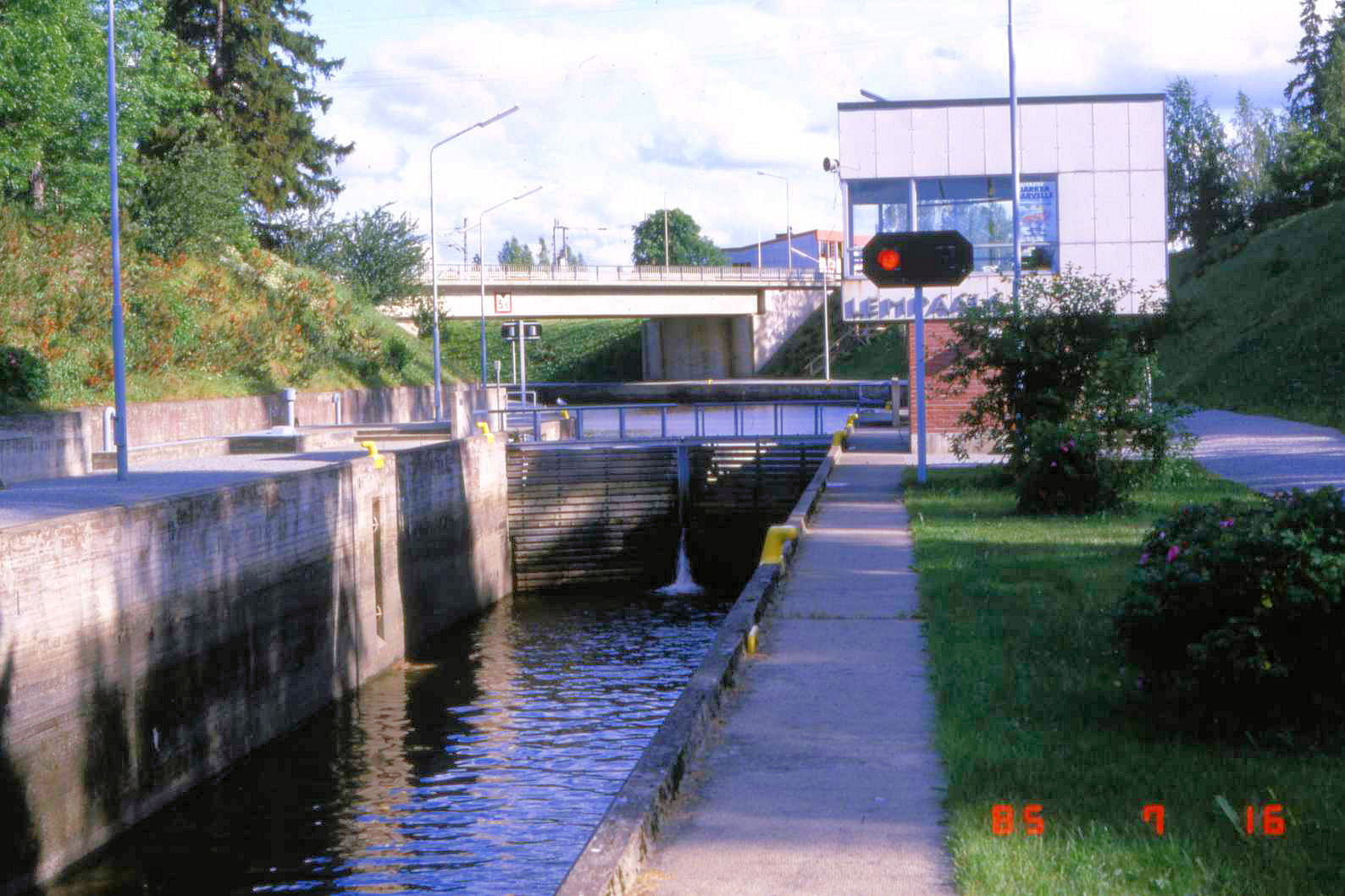 Lempäälä Canal in Lempäälä, Finland